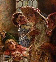 "This large painting depicts one of the most important social and political events of old Russia, a wedding uniting two families of the powerful boyar class that dominated Muscovite politics in the sixteenth and seventeenth centuries." (Verbatim from original description, to see more)